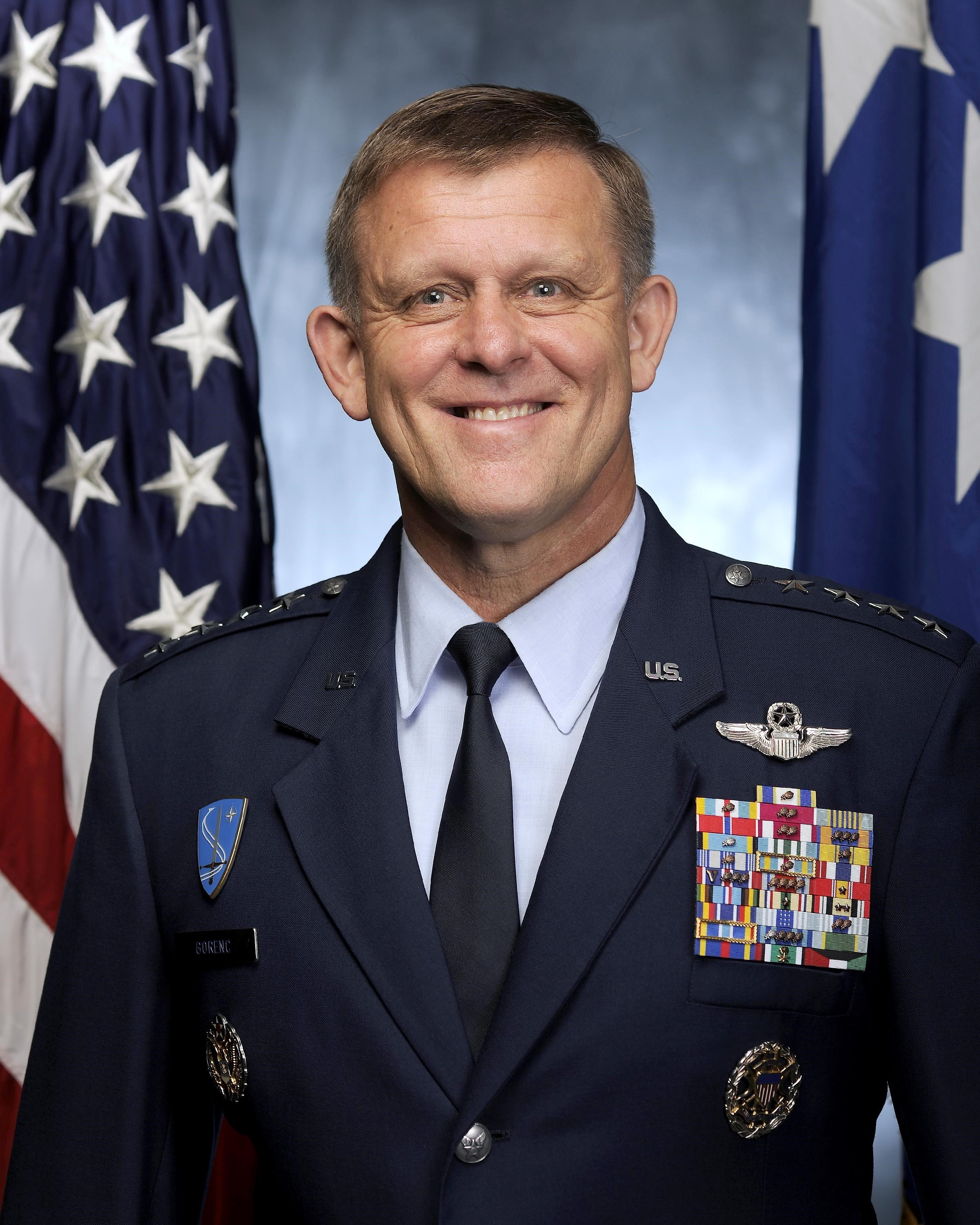 General Frank Gorenc, USAFCommander, U.S. Air Forces in Europe (USAFE)Commander, U.S. Air Forces Africa (AFAFRICA)Commander, Air Component Command, Ramstein (AIR-COM Ramstein) andDirector, Joint Air Power Competence Center (JAPCC)